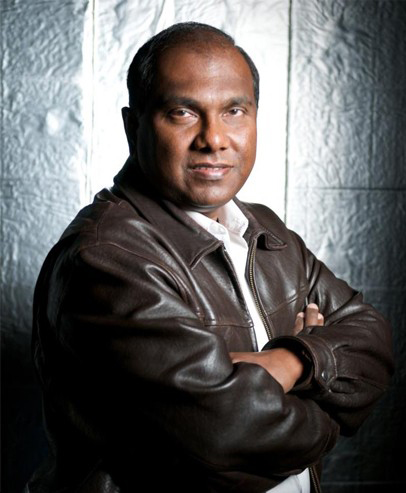 Photograph of Sri Lankan Solid-State Physicist,Senior Research Scientist and Group Supervisor at NASA's Jet Propulsion Laboratory,Dr.Sarath Gunapala